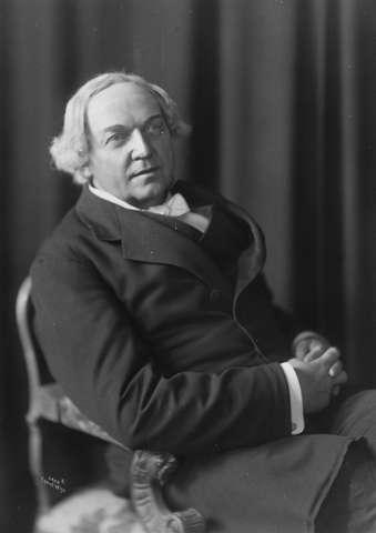 Stub Wiberg in his role as "the old priest".